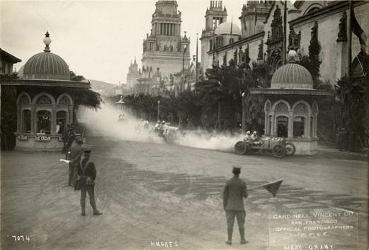 Hughie Hughes (#28, Ono) and Harry Grant (#30, right, Case) rounding a corner in the 1915 American Grand Prize and Vanderbilt Cup around the grounds of San Francisco's Panama-Pacific Exposition